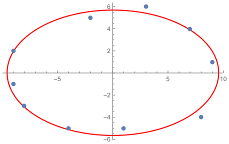 least square approximation of an ellipse